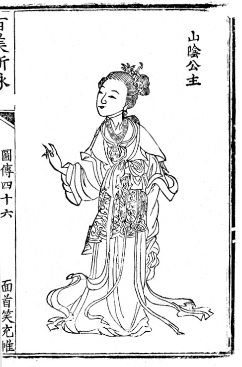 Liu Chuyu, also known as Princess Shanyin, from the 18th century work Hundred Poems of Beautiful Women (Bai Mei Xin Yong Tu Zhuan 百美新詠圖傳) by Yan Xiyuan (颜希源). Woodblock print of drawing by Wang Hui 王翙